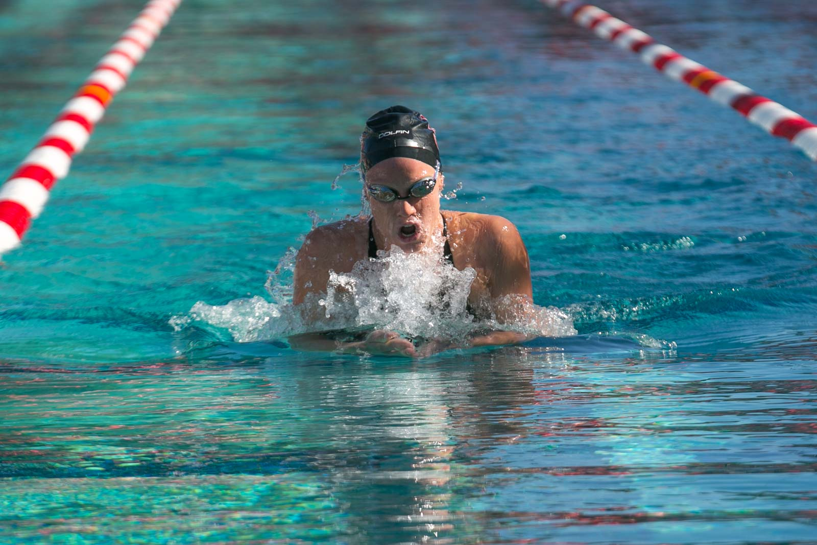 Ella Eastin in winning 400 IM